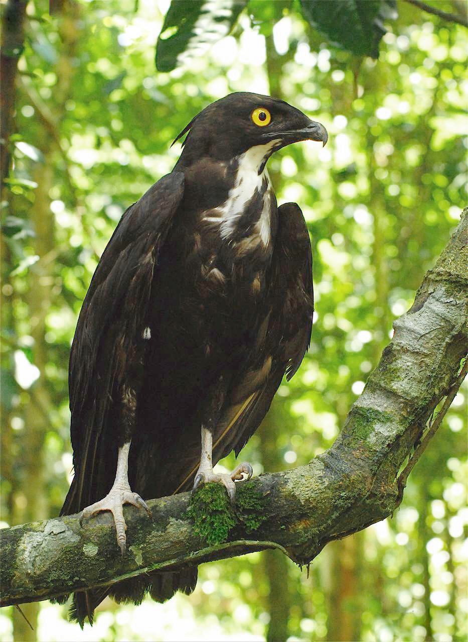 Bat Hawk (Macheiramphus alcinus), Kinabatangan River, Malaysia.